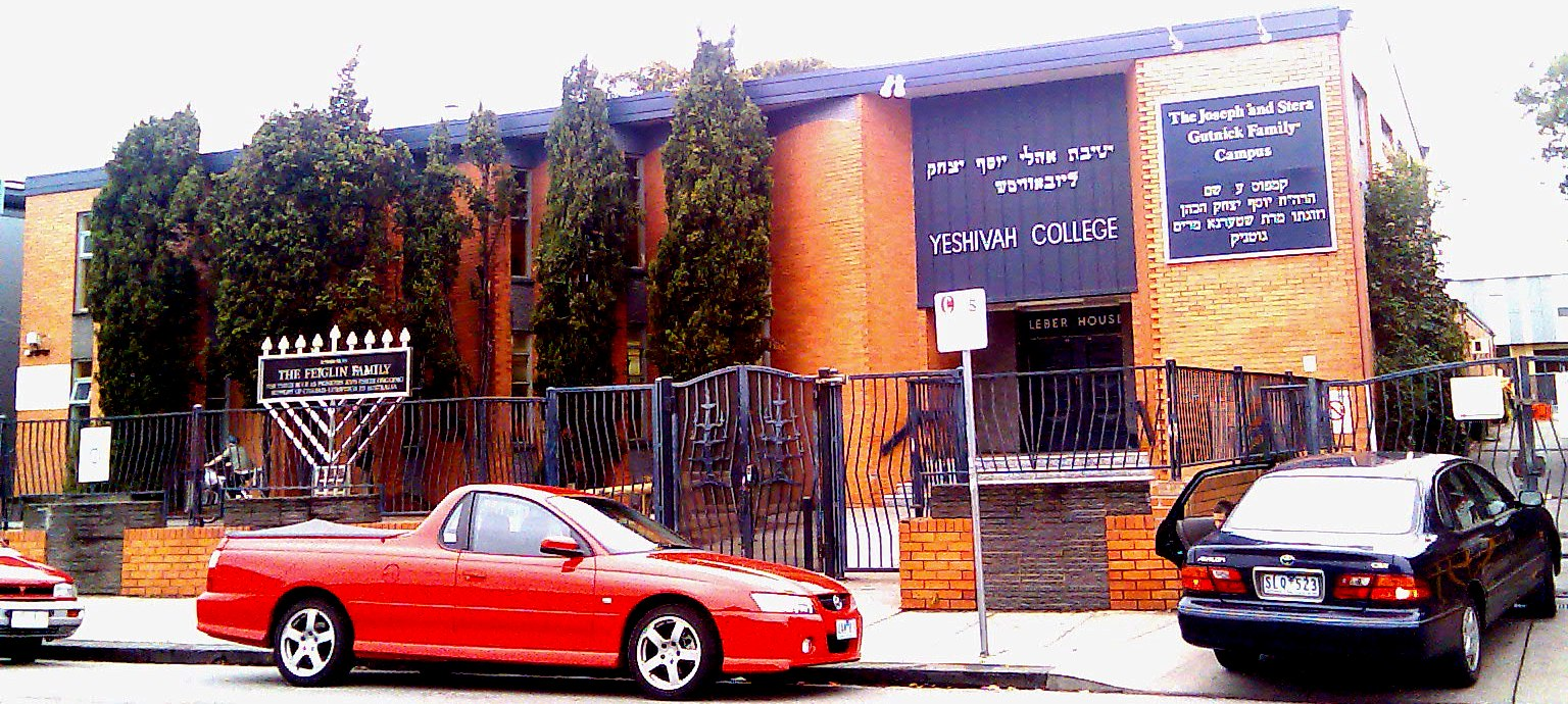 Image in the public domain copied and transferred from Wikipedia and representing the entrance of the yeshiva Centre in Melbourne, Australia.